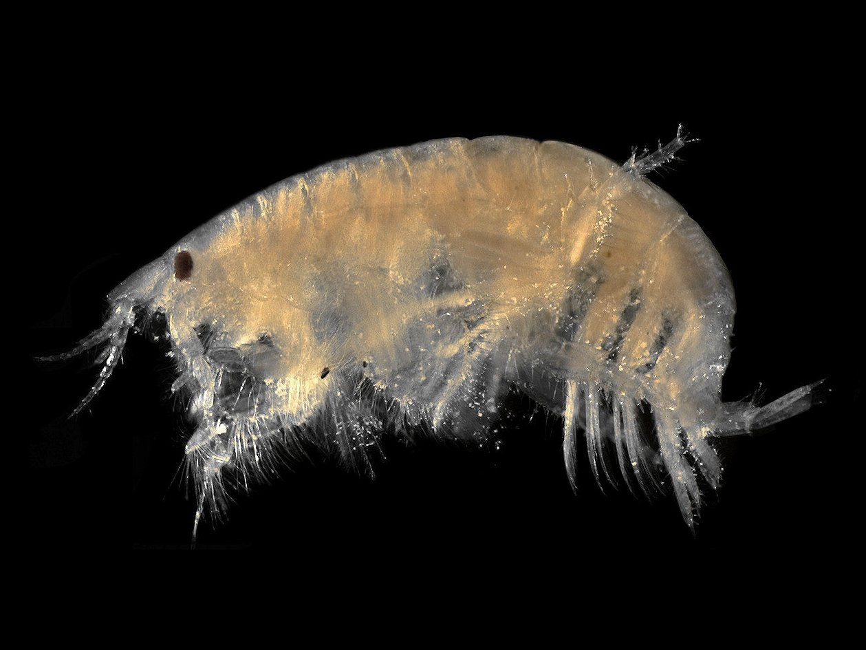 Burying amphipod from intertidal and subtidal sandy substrates.Camera mounted on a Zeiss Stemi C-2000 binocular microscopeLength: ~4.5 mm.Belgian Coast.